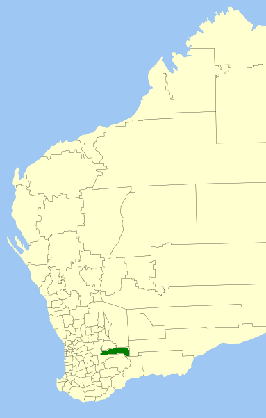 Description=Location of the Local Government Area in Western Australia